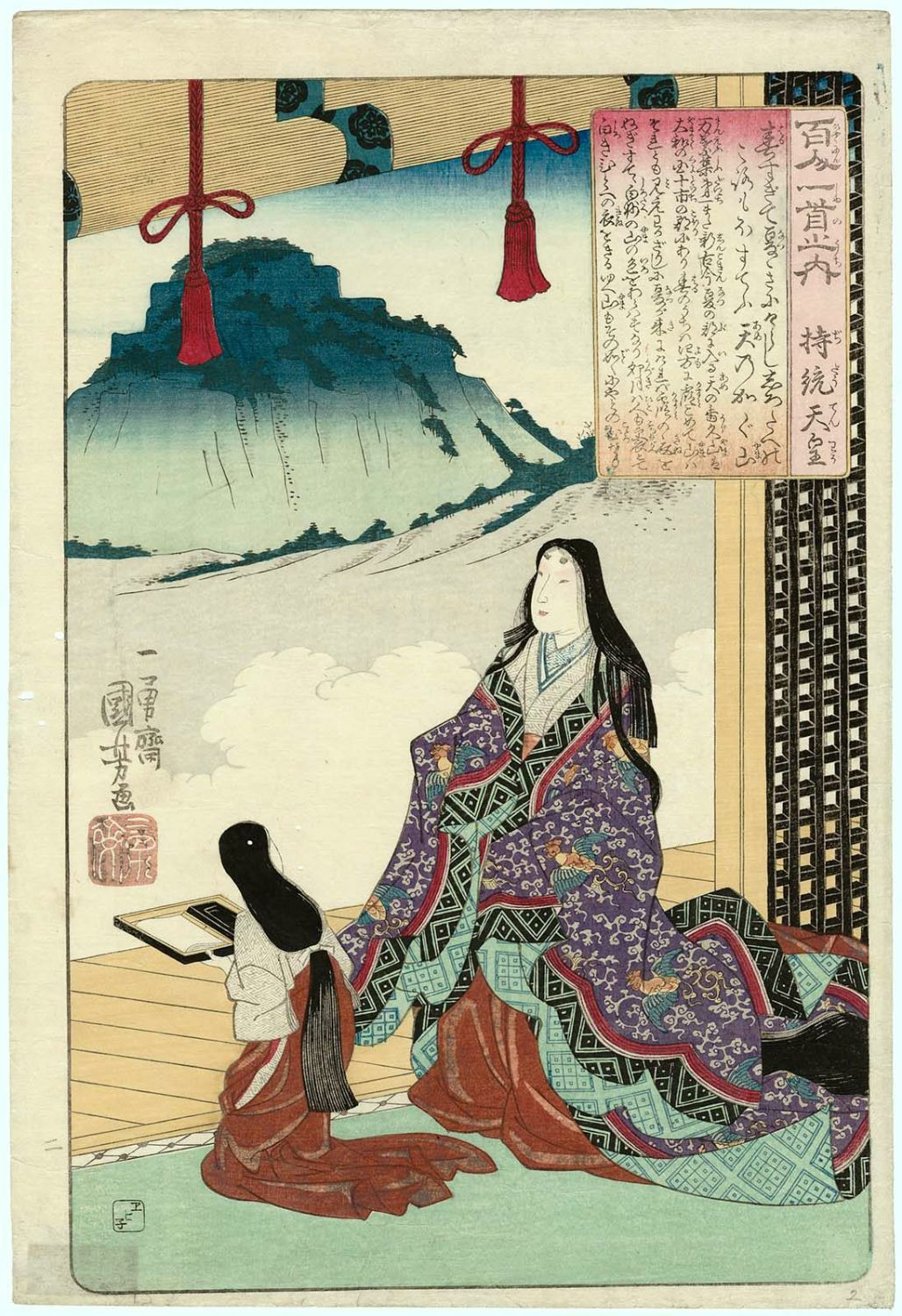 Poem by Empress Jitō, from the series One Hundred Poems by One Hundred Poets (Hyakunin isshu no uchi). Woodblock print (nishiki-e). Poem inscription: "Haru sugite/ natsu kinekerashi/ shirotae no/ koromo hosuchô/ Ama no kagu yama."